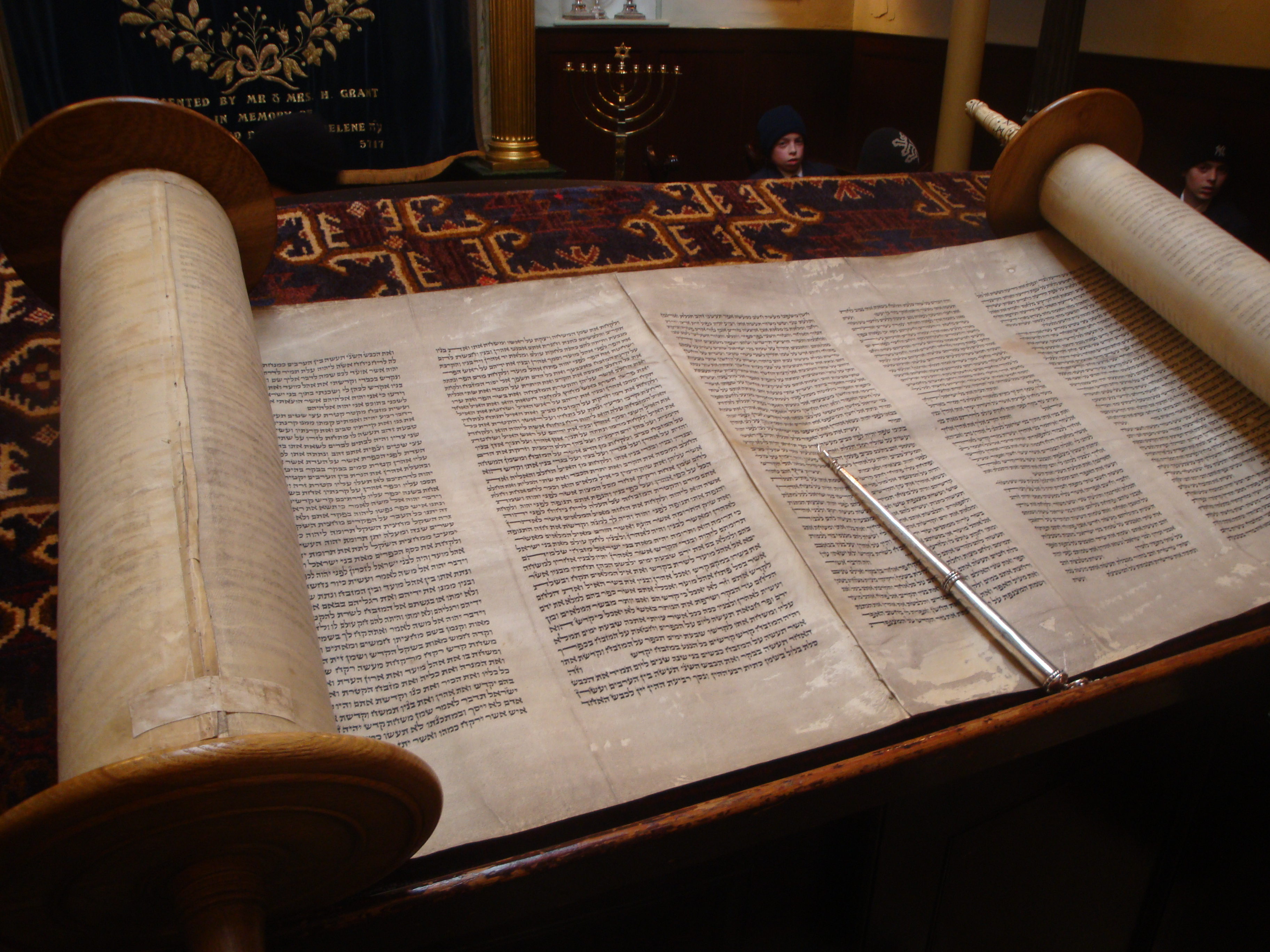 The Torah, the Jewish Holy Book.